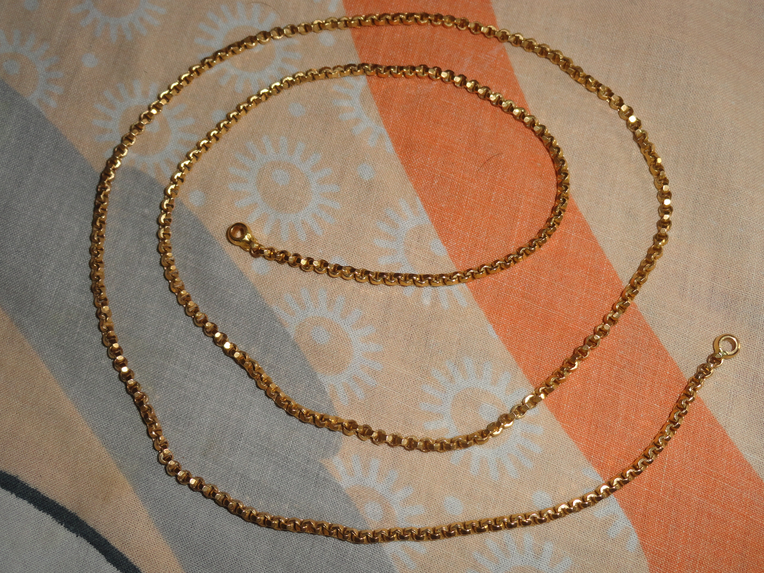 long chain